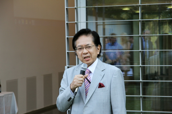 Etsurō Honda, Ambassador to Switzerland, addressed at the Chicken Festival at the Embassy of Japan in Bern on September 1, 2016.